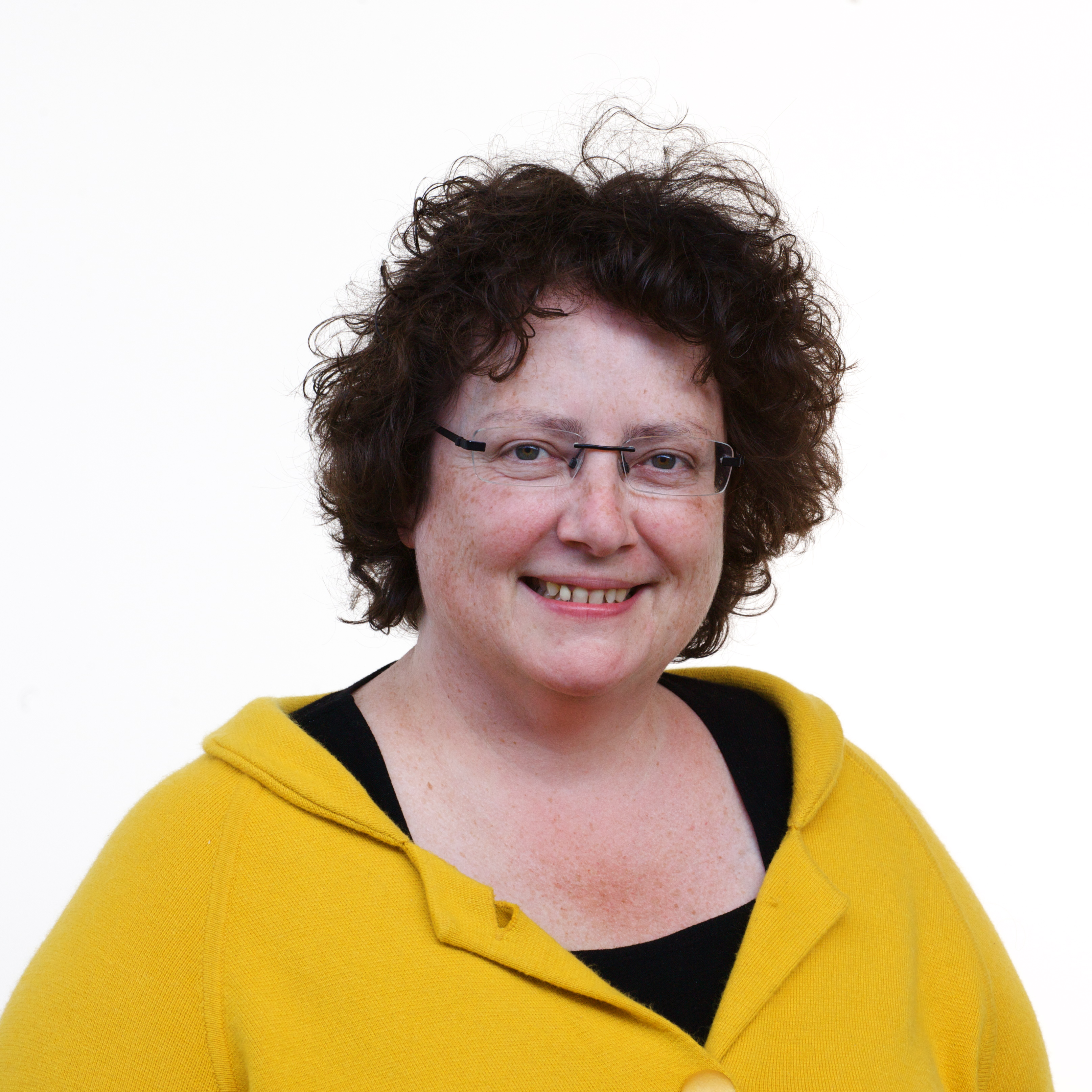 Elin Jones AM, member of the National Assembly for Wales.